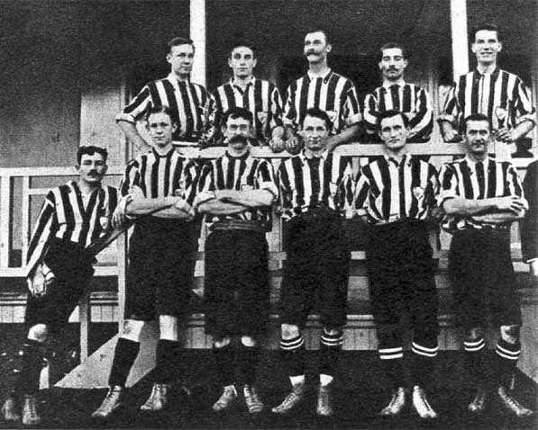 Alumni squad for the 1905 season: Standing on the back: Alfredo Brown, H. E. Peluffo, Carlos Buchanan, José Laforia, Eliseo Brown; Standing on the front: Carlos Lett, Ernesto Brown, Arturo Mack, Jorge Brown, Gottlob Weiss, Carlos Brown.